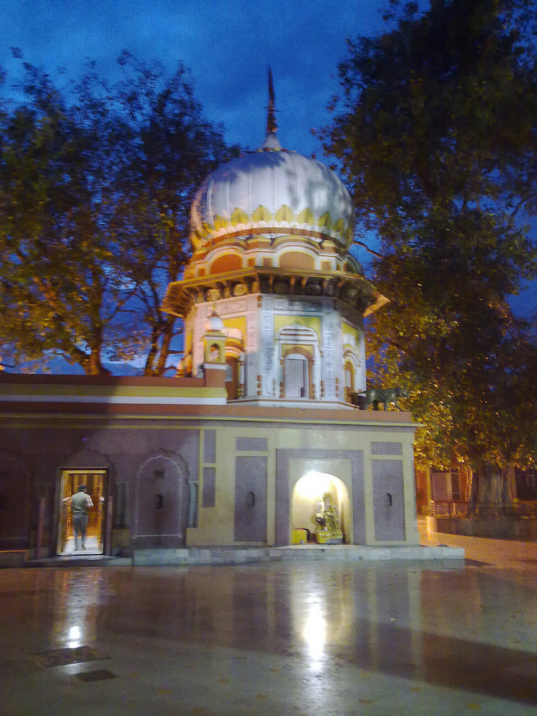 The main building in the center of the temple (as seen from side) where the "pindi" of Mata Bala Sundri is present.